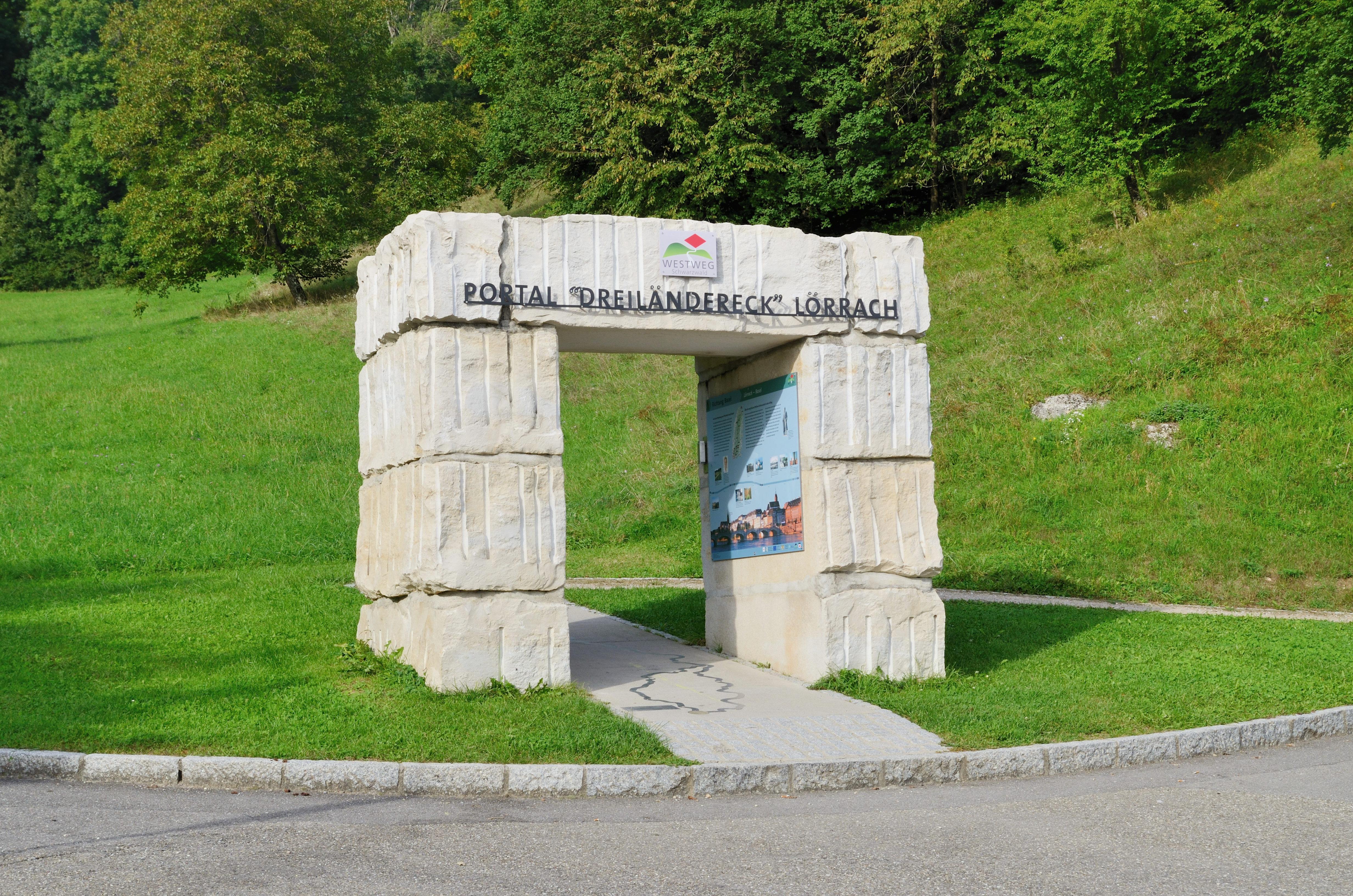 portal of the Westweg (West Trail) near Rötteln Castle